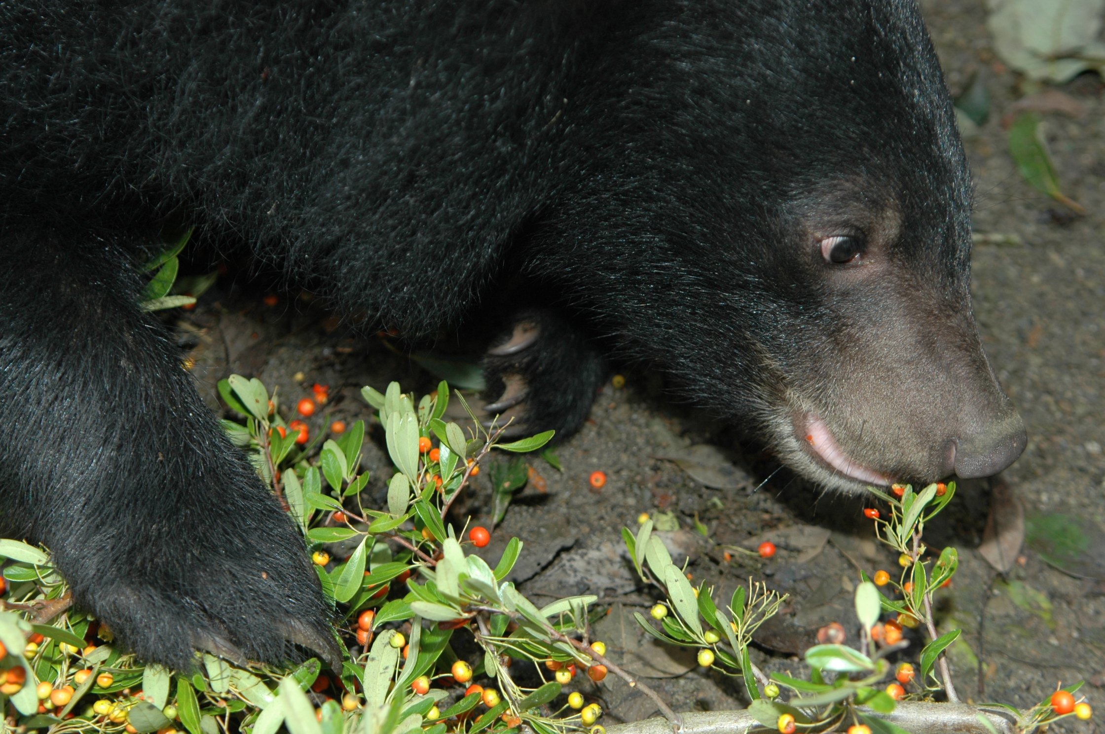 19-Fruit_Bingo